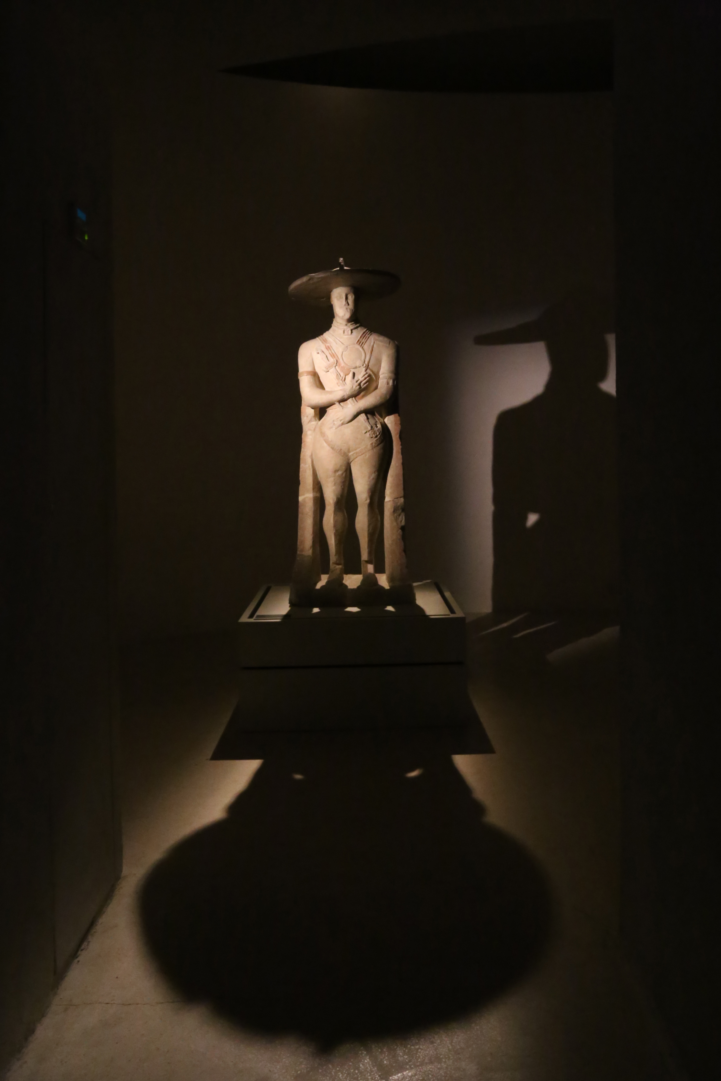 Guerriero di Capestrano